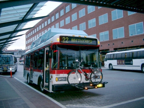 A Salem-Keizer Transit (Cherriots) Compressed Natural Gas bus at Salem, Oregon's Courthouse Square. The bus to the right was formerly used by TriMet Summary A Salem-Keizer Transit (Cherriots) Compressed Natural Gas bus at Salem, Oregon's Courthouse Square. The bus to the right was formerly used by TriMet